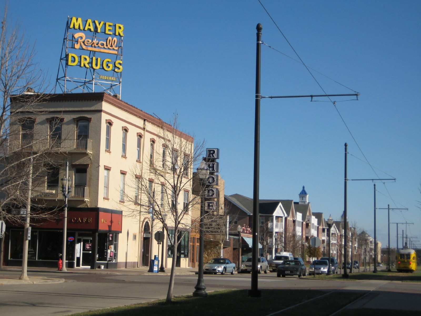 Drugstore at 54th St. and 6th Ave. in Kenosha, Wisconsin, USA